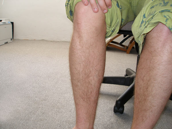 Leg hair of a 17-year-old white male